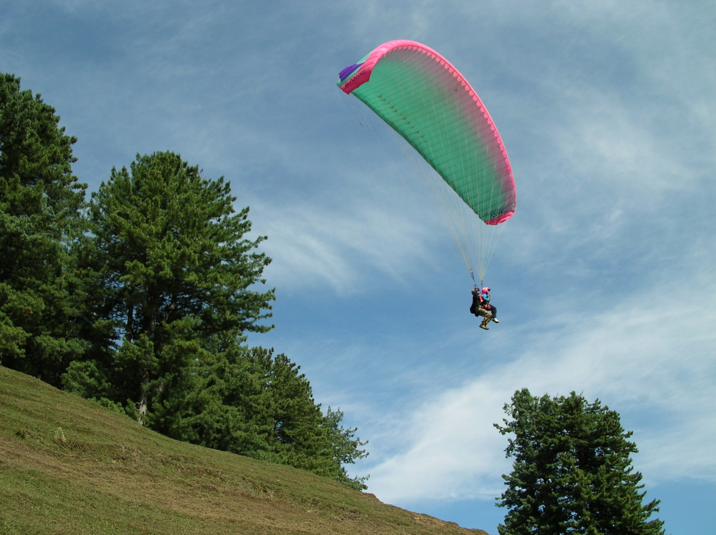 Author-DrThakur Naveen Kotwal Paragliding at Sanasar,Take Off Source-Sanasar,Nov-2007